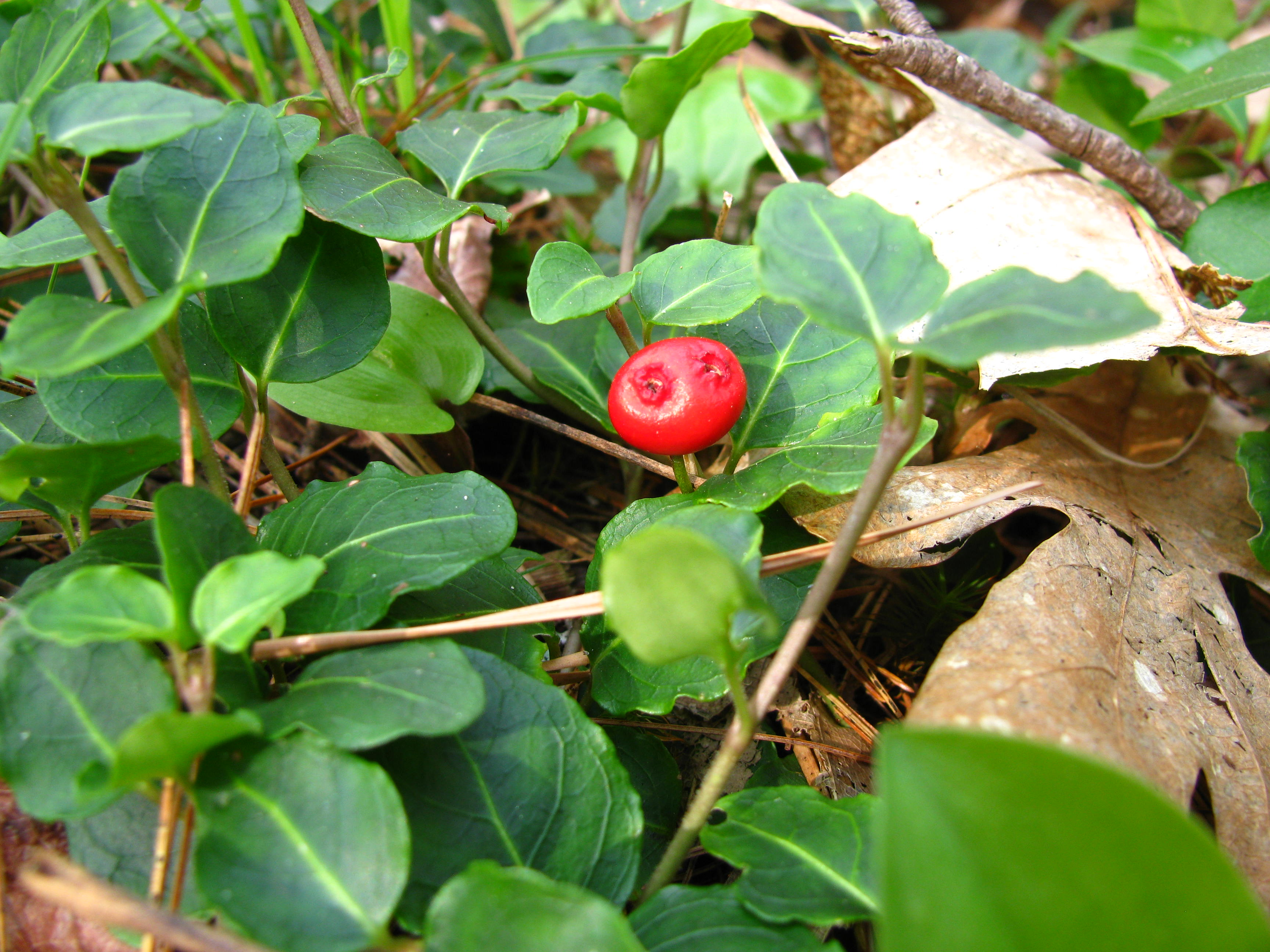 Mitchella repens in the early spring. This photo shows the berry.